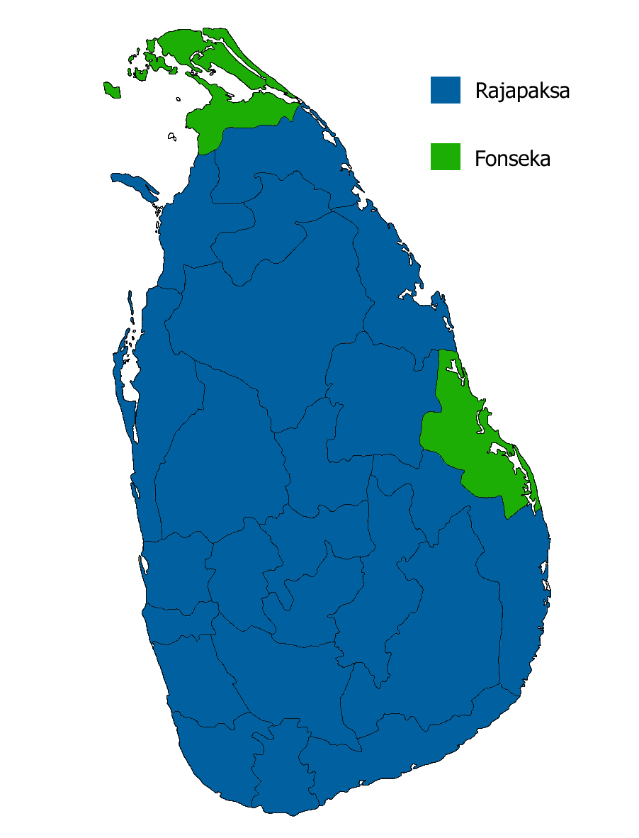 Postal vote results for the Sri Lankan presidential election, 2010. Blue denotes districts won by Mahinda Rajapaksa, and Green denotes those won by Sarath Fonseka. Ref and